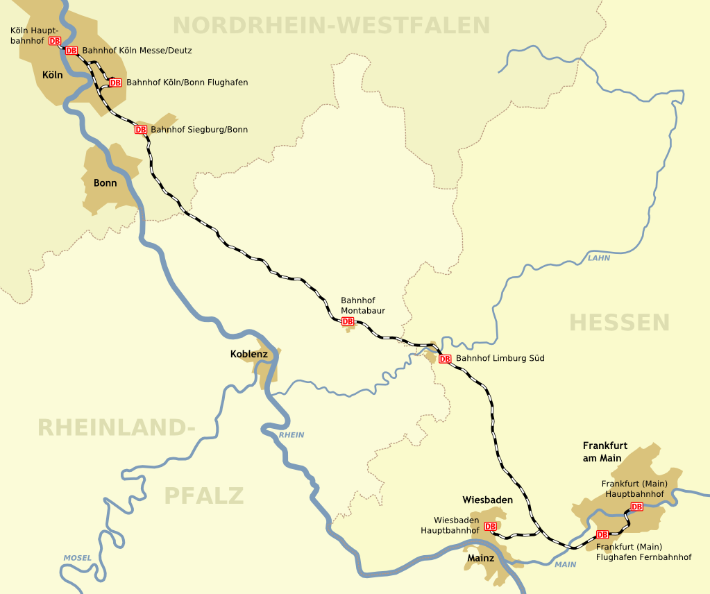 Author: --T.h. 13:15, 29 October 2006 (UTC) Korrekt gerenderte Bitmap (Quelle) - Bitte nur diese Version verwenden! correctly rendered bitmap (source) - Please use only this version!